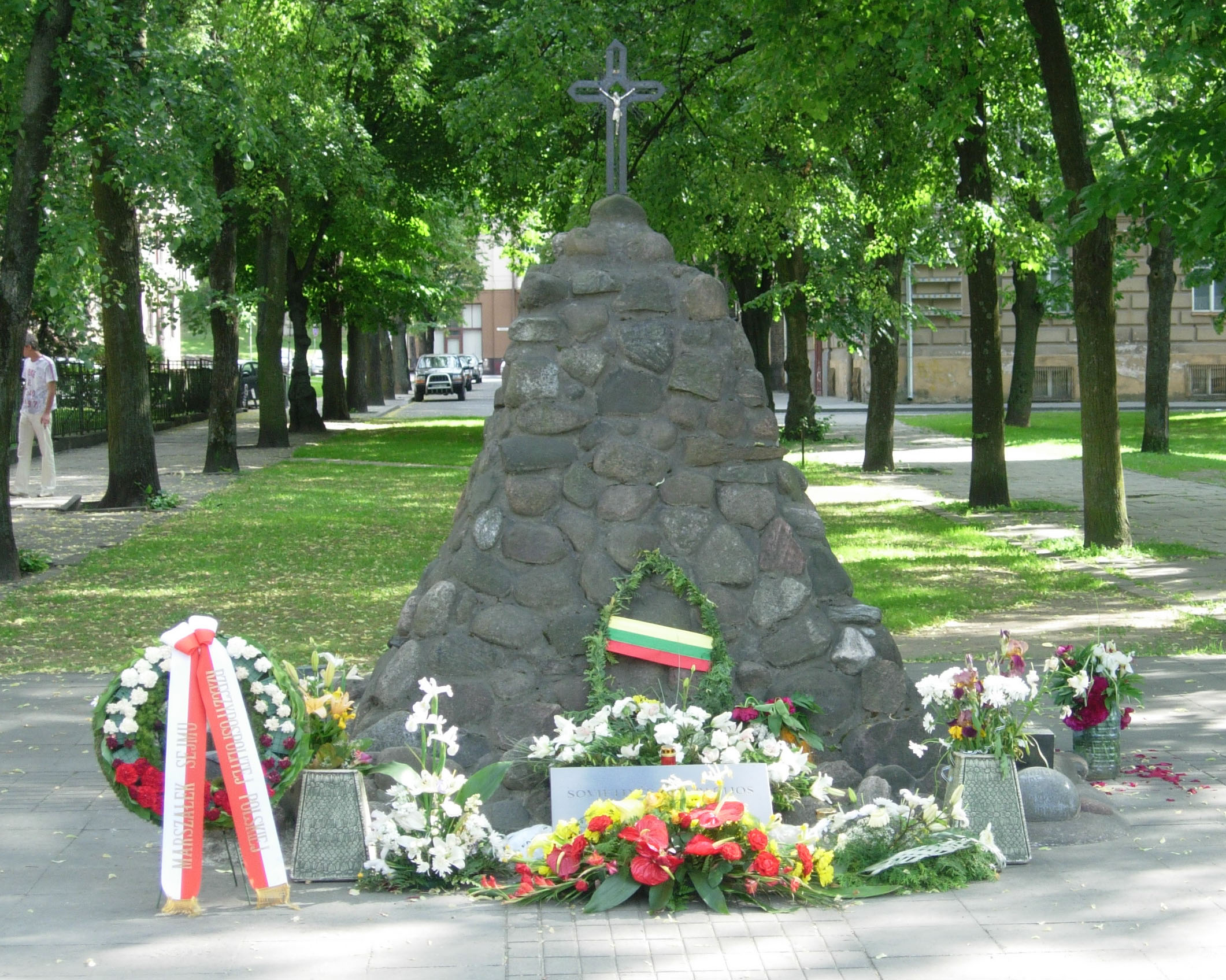 Memorial to KGB victims in Vilnius, Lithuania.